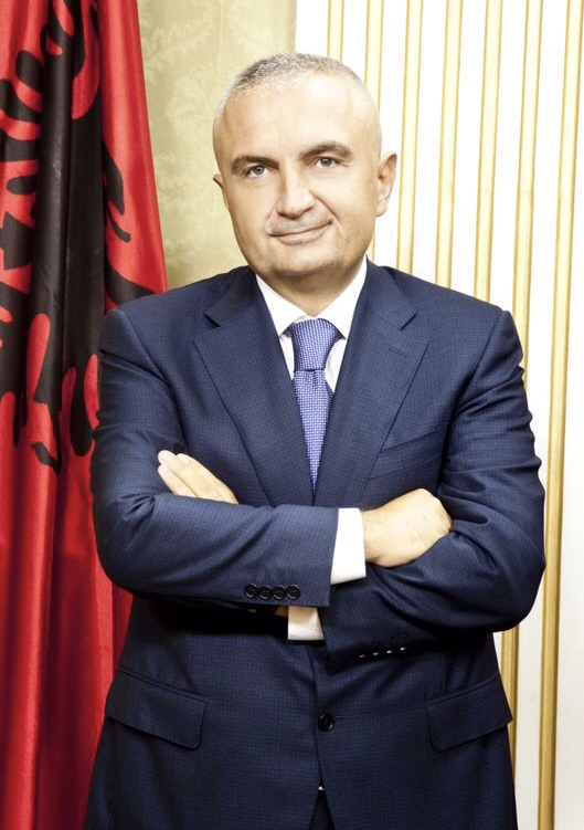 Portrait of Ilir Meta